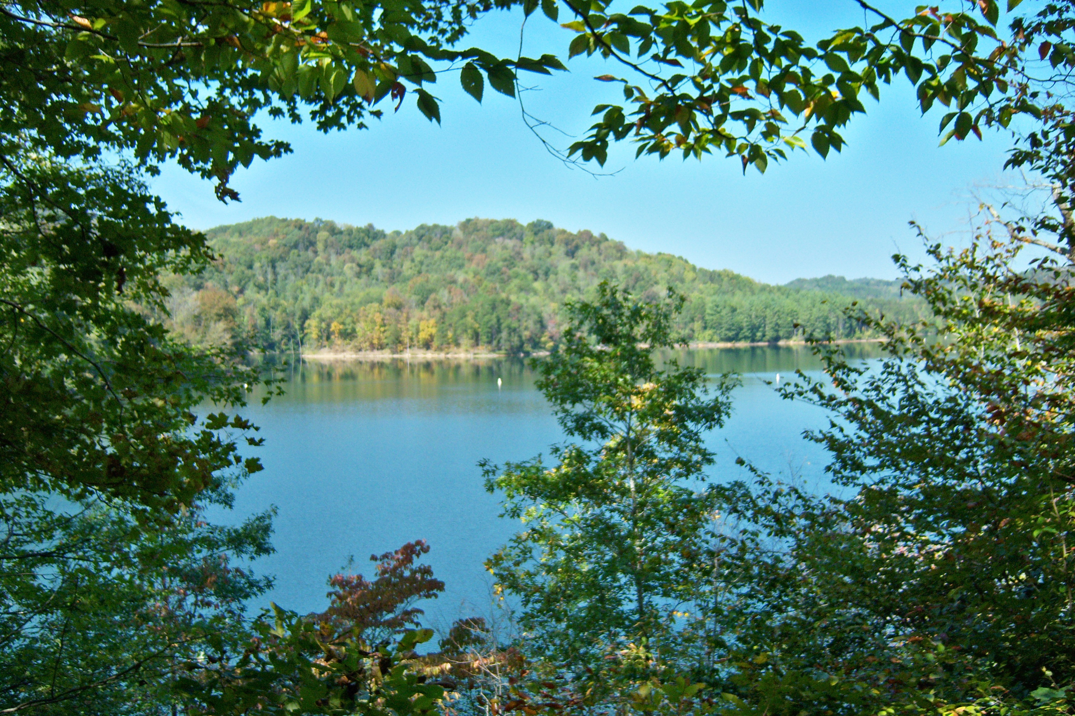 Another view of Paintsville Lake.